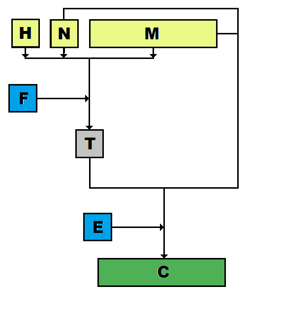 Mac-then-encrypt(AEAD)